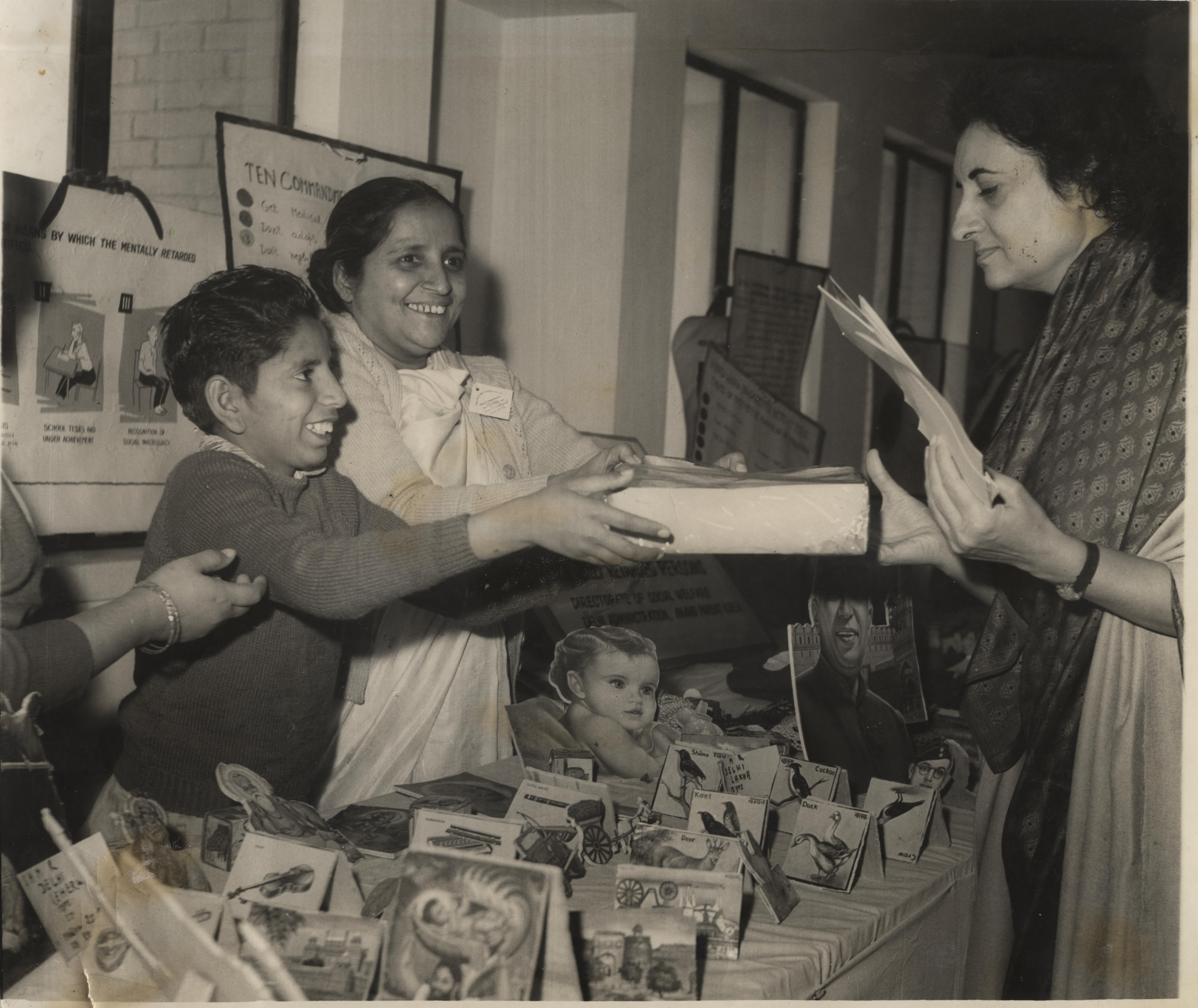 Indira Gandhi visiting a school in New Delhi